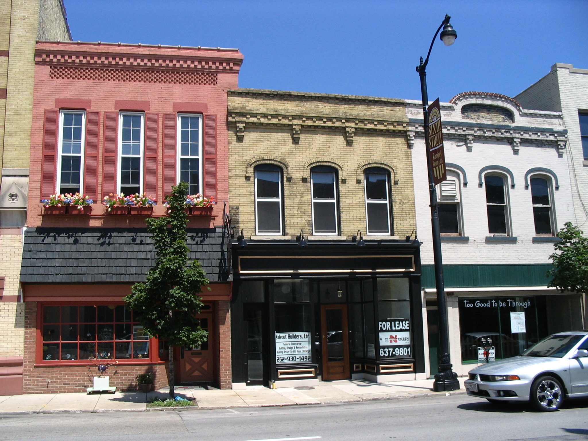 Historic Buildings on 6th Street, Racine, Wisconsin. This area is listed on the National Register of Historic Places.